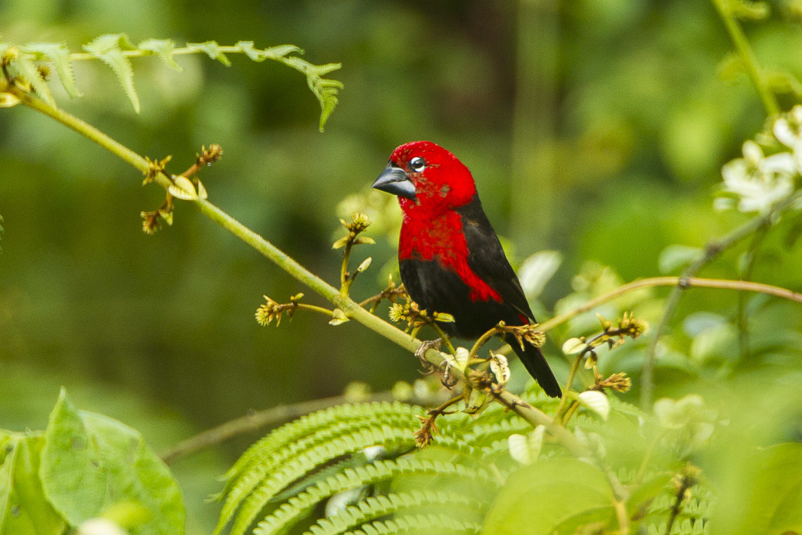 A Black-bellied Seedcracker (Pyrenestes ostrinus) near Kakum National park (Ghana)